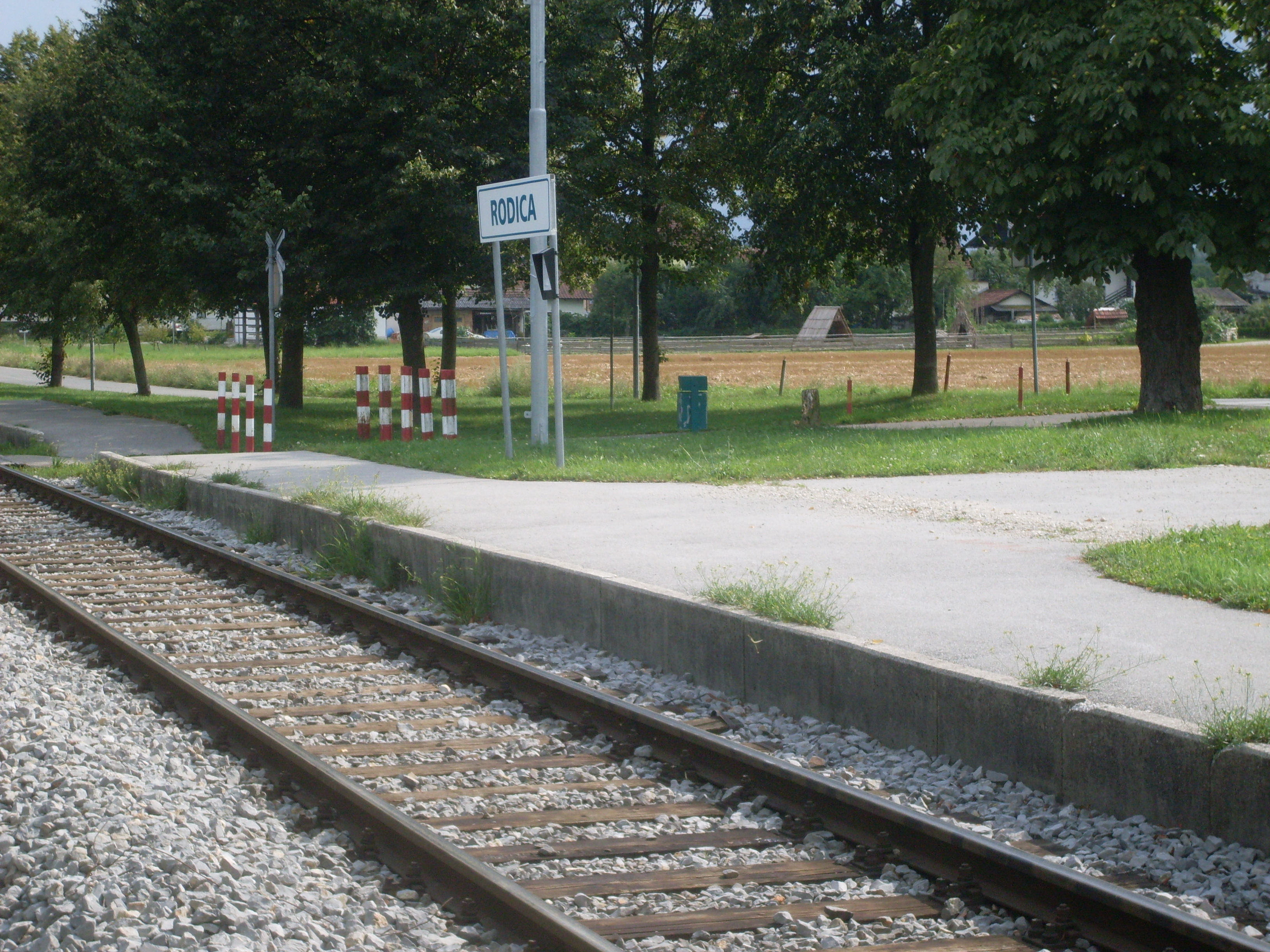 Railway halt in Rodica, after the building was torn down in December 2010